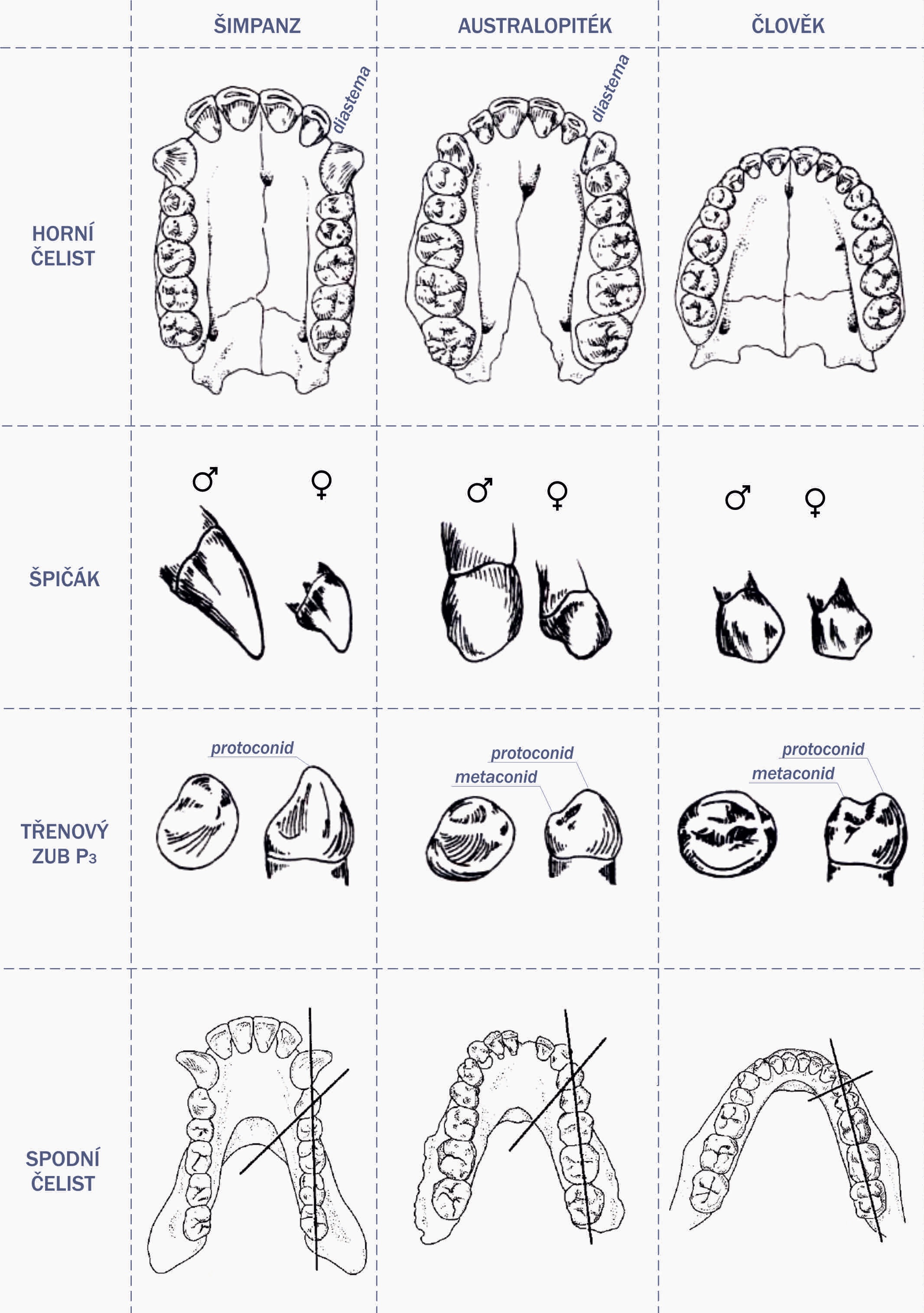 Evolution of human dentition - chimpanzee, Australopithecus and modern Homo sapiens comparison chart